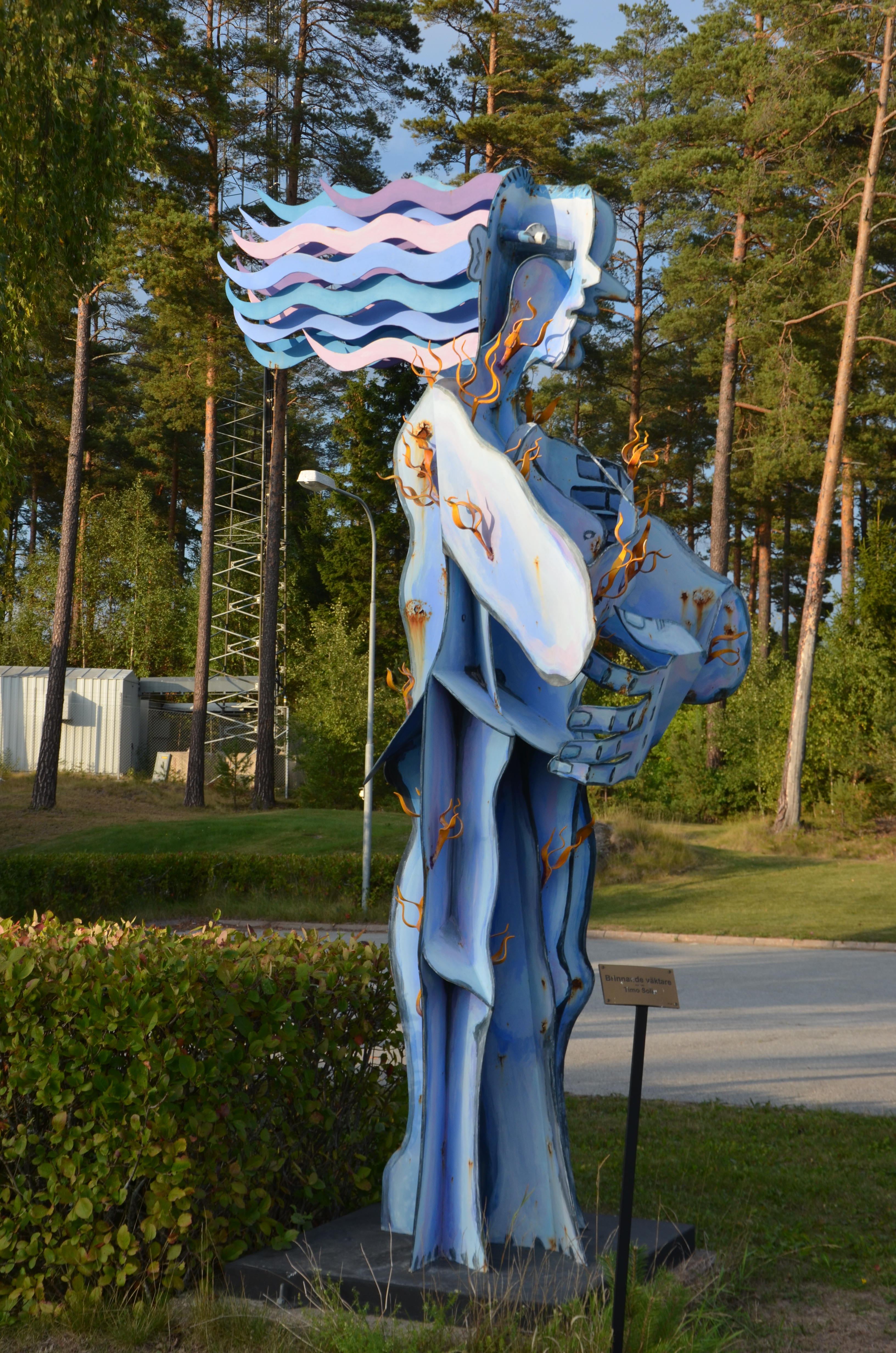 Brinnande väktare av Timo Solin, Bålsta